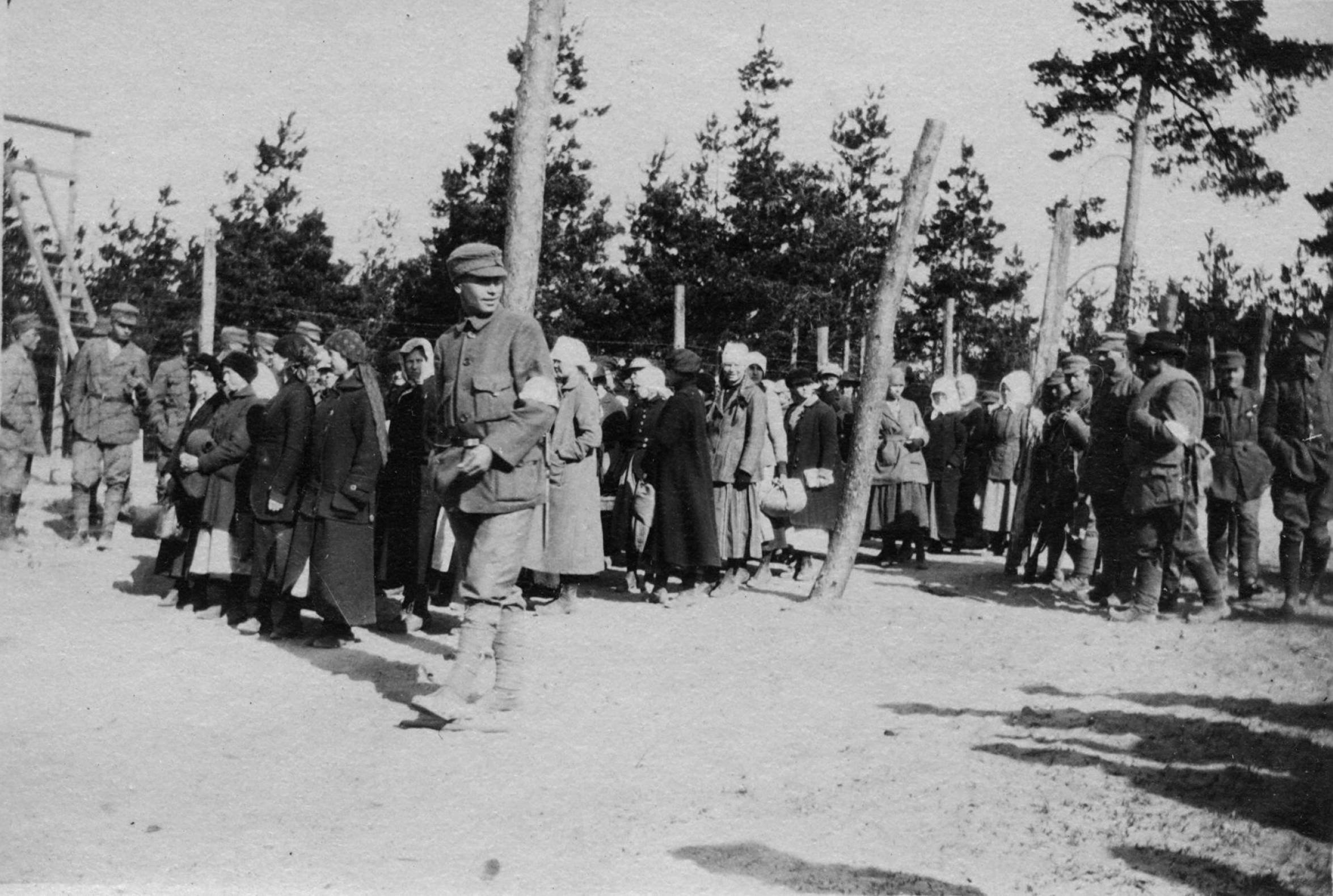 Photograph of female prisoners of the Red guard at Dragsvik prison camp. Originally, there were some 600 woman prisoners at this camp but they were transferred to Santahamina (Sandhamn) already on 20 June 1918.